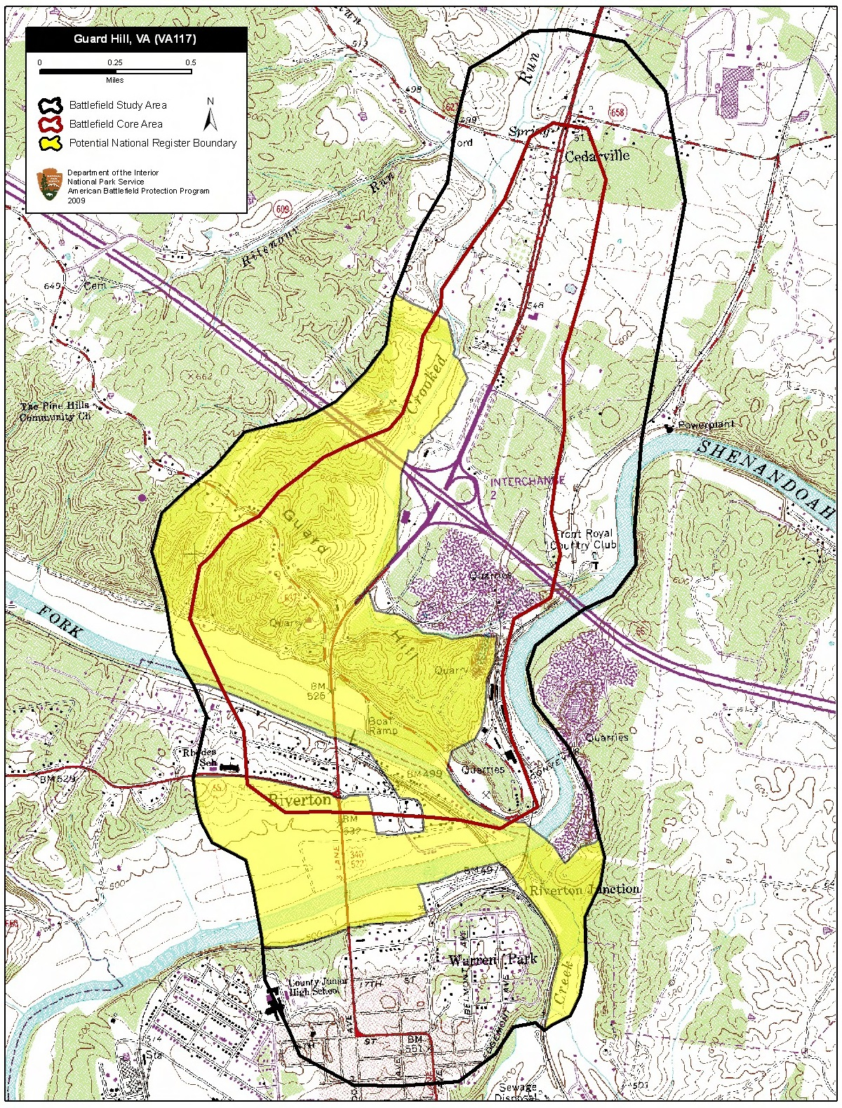 Map of battlefield core and study areas. The Study Area has been expanded to accommodate a larger Core Area. The Core Area now includes lands along Route 522 upon which Confederate artillery shelled the retreating Federal cavalry as it moved toward Cedarville.